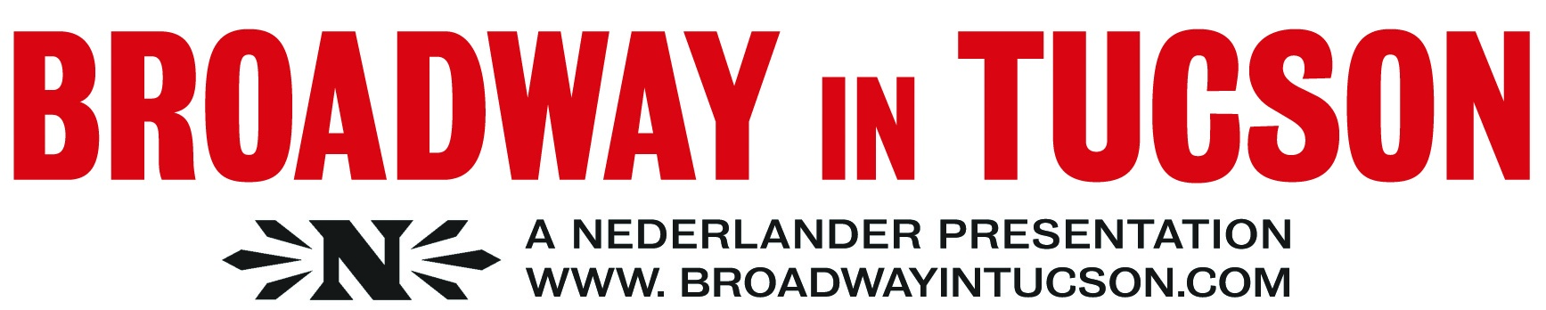 Broadway In Tucson red stacked logo